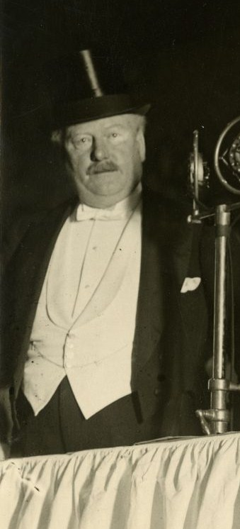 William Donald Ross, the Lieutenant Governor of Ontario, in Toronto, Ontario, Canada.